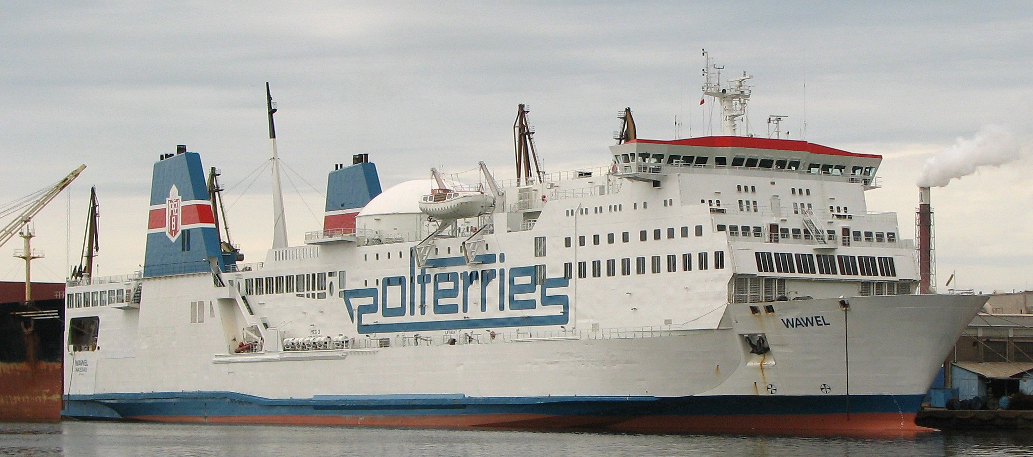 Wawel in Gdansk, Poland IMO Number: 7814462 MMSI Number: 311852000 Callsign: C6TY9 Length: 164 m Beam: 28 m